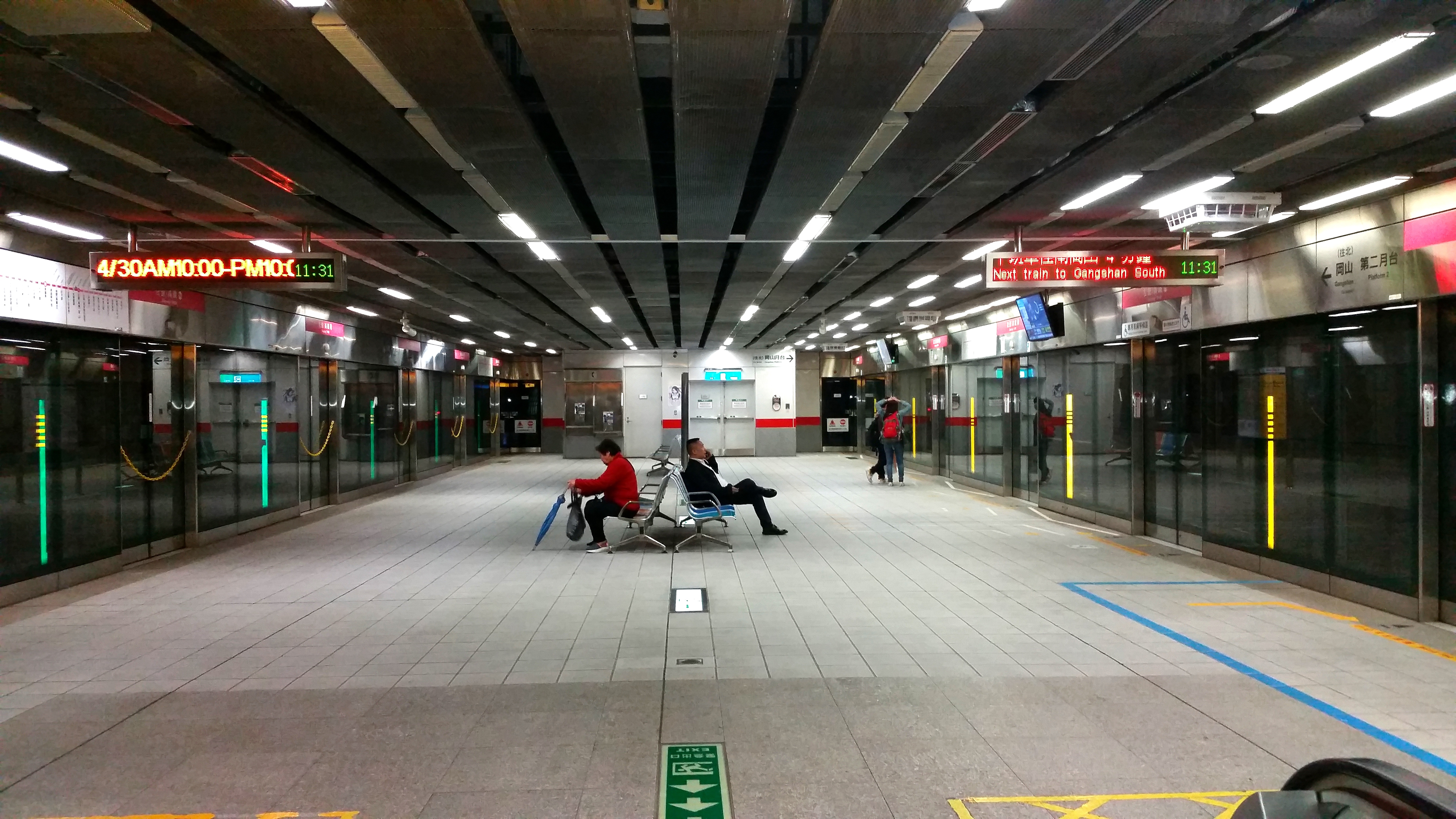 Zuoying Station of the Kaohsiung Mass Rapid Transit, facing platforms northwards.